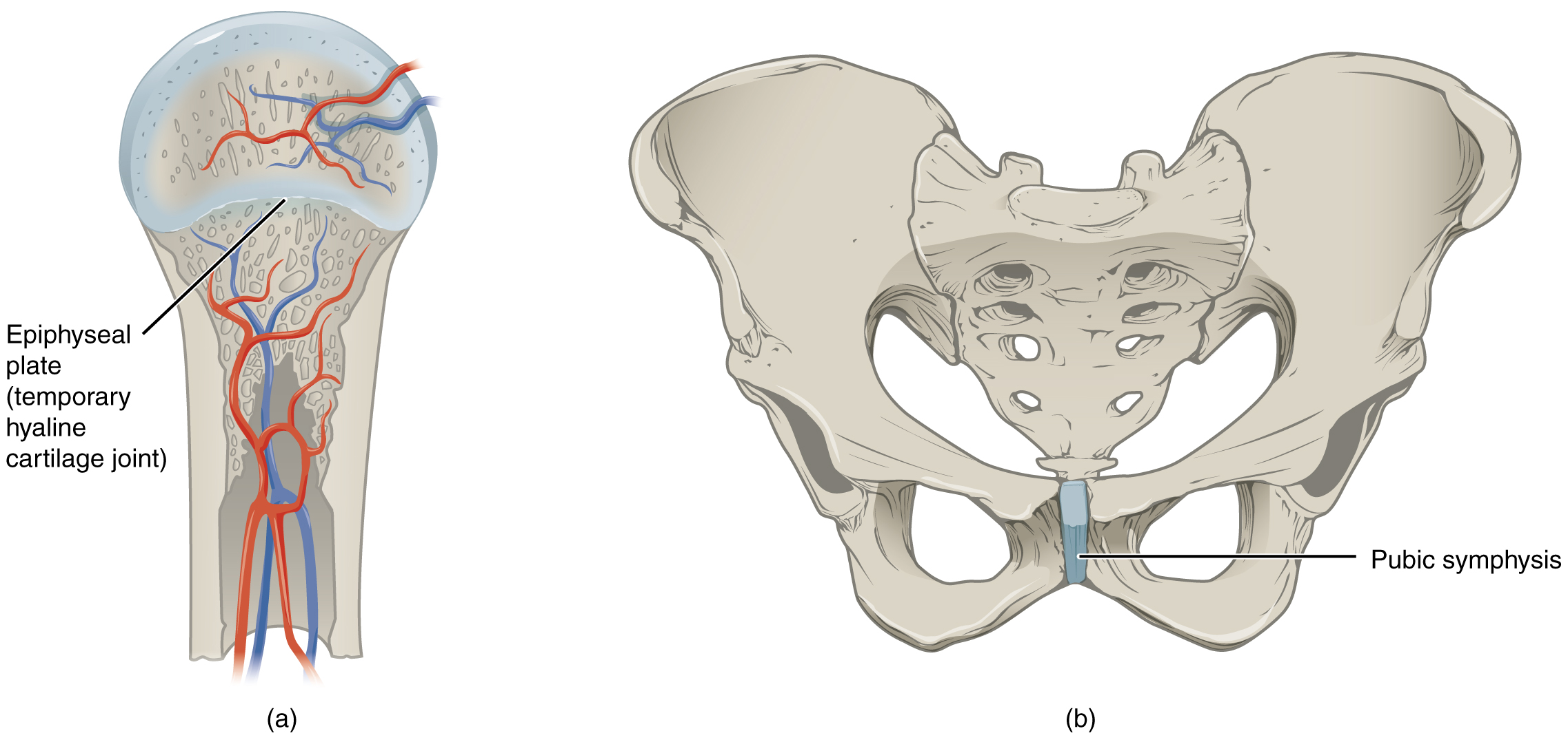 Anatomy & Physiology, Connexions Web site. Jun 19, 2013.